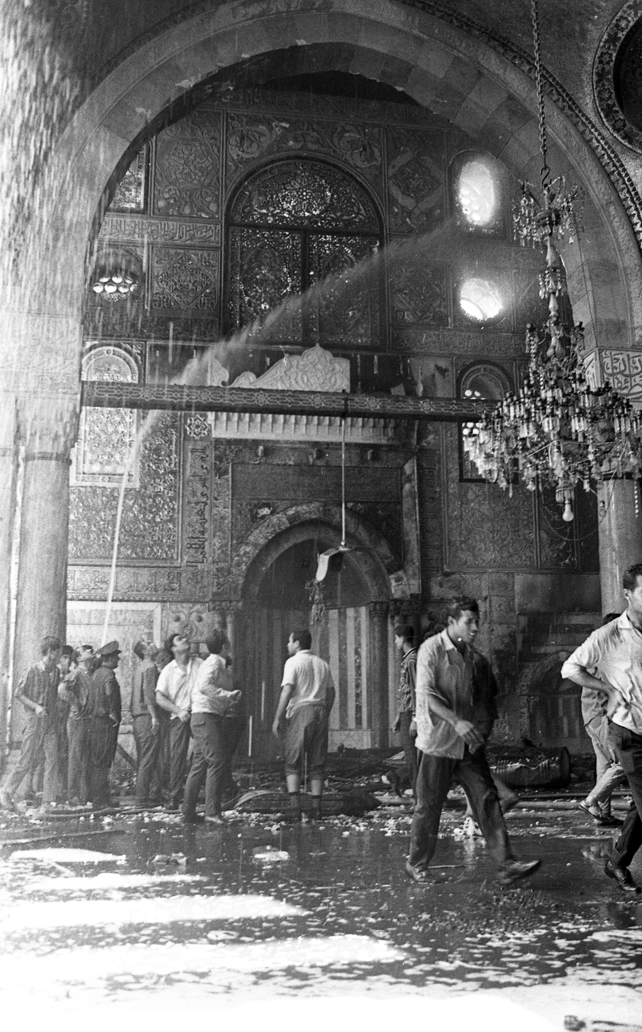 Fire in the al-Aqsa mosque.